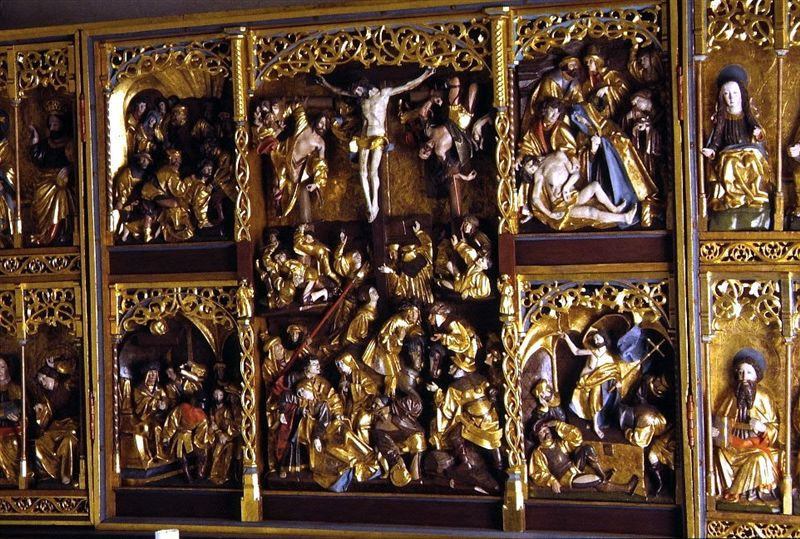 Altar by Claus Berg from apr. 1515 in Sanderum Kirke